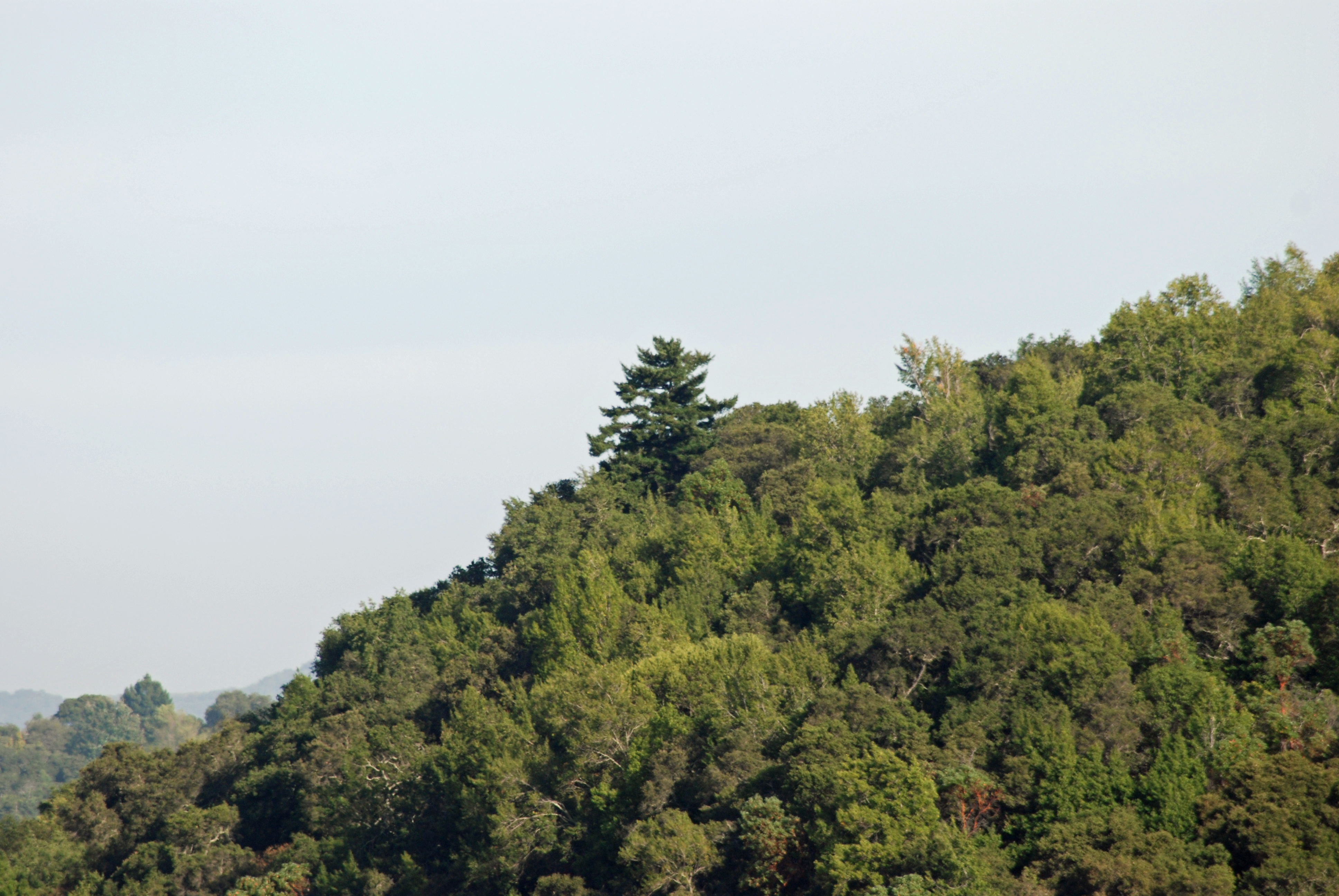 Huge Douglas fir (Pseudotsuga menziesii) towering above coast live oak and madrone woods on northeast peak of Jasper Ridge, San Mateo County, California. Example of the California mixed evergreen forest ecoregion.